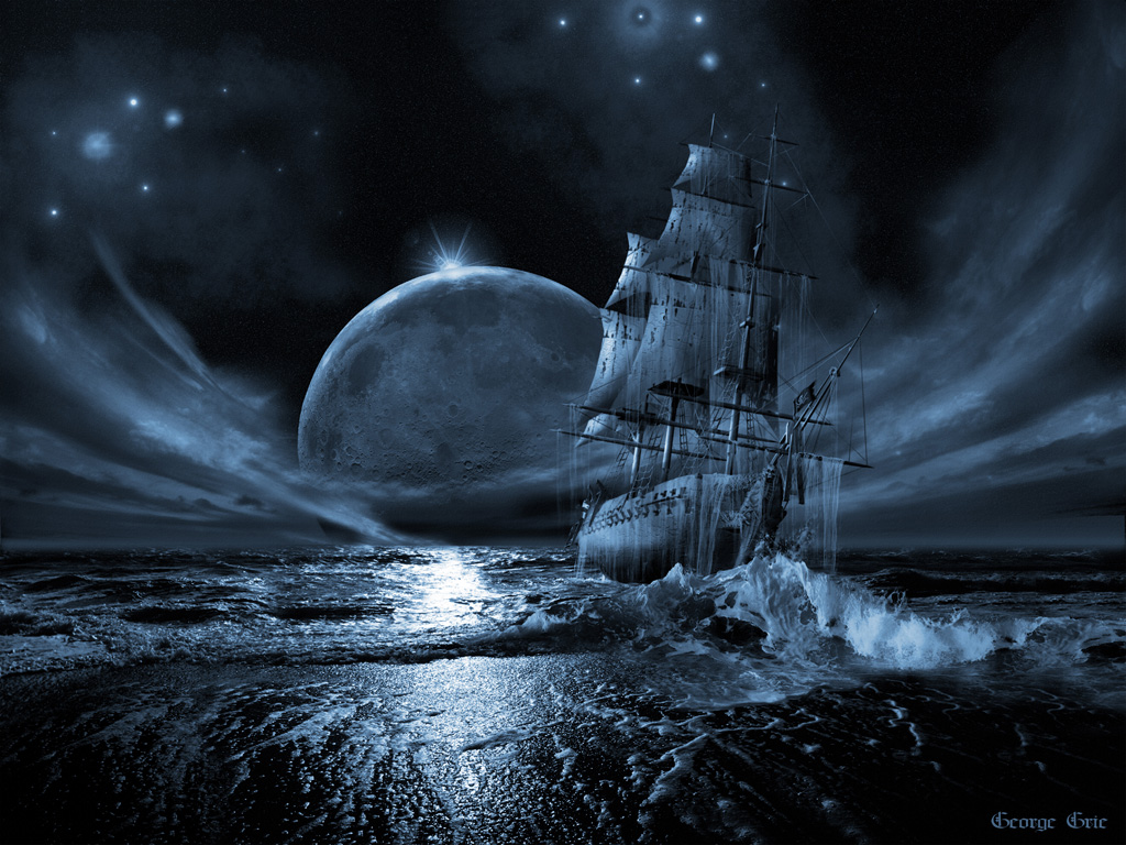 Modern English defines “ghost ship” in several possible ways but each of them has a component of mysterious circumstances. Historically, the term has been used to report either marine visions in a form of a sailing ship or derelict vessels floating crew-less. In fiction, ghost ships have often been vessels crewed by some manner of spectral beings.